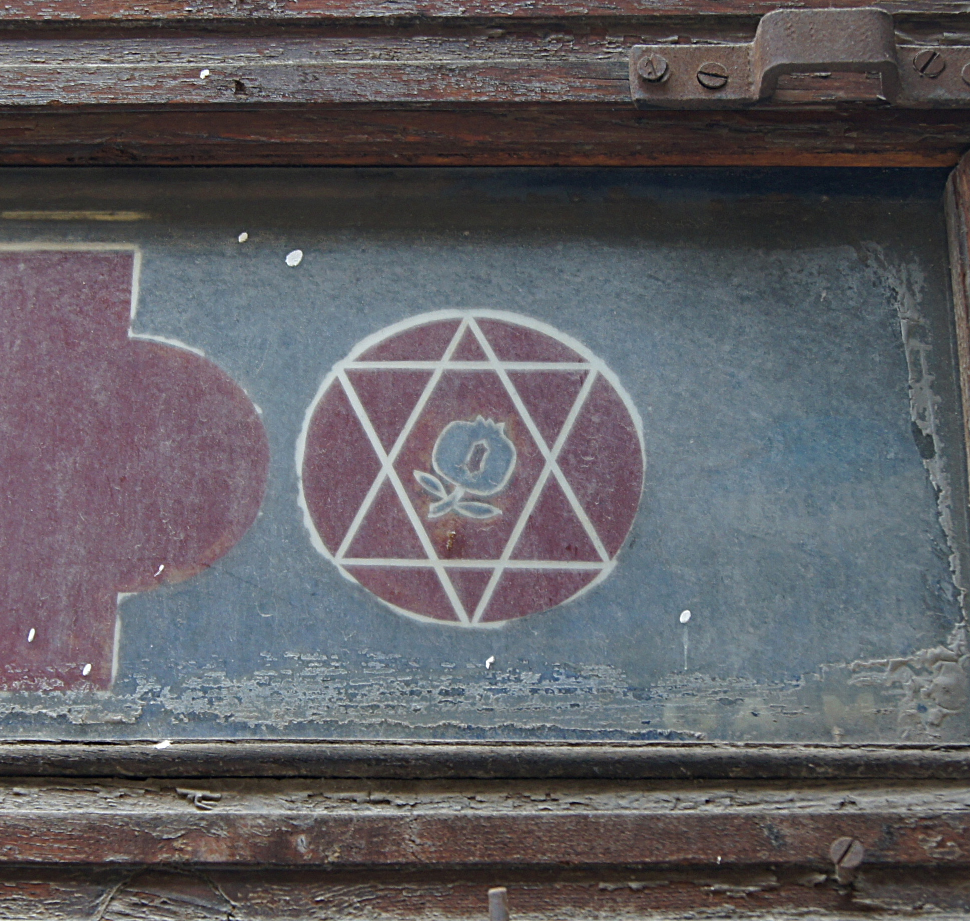 a very old jewish pomegranate above a store, Granada, Spain